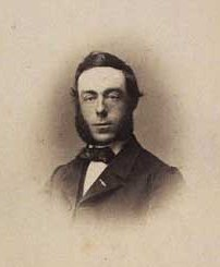 Valdemar Johannes Ludvig Schiøtt (1826-1915), Danish flautist and philanthropist